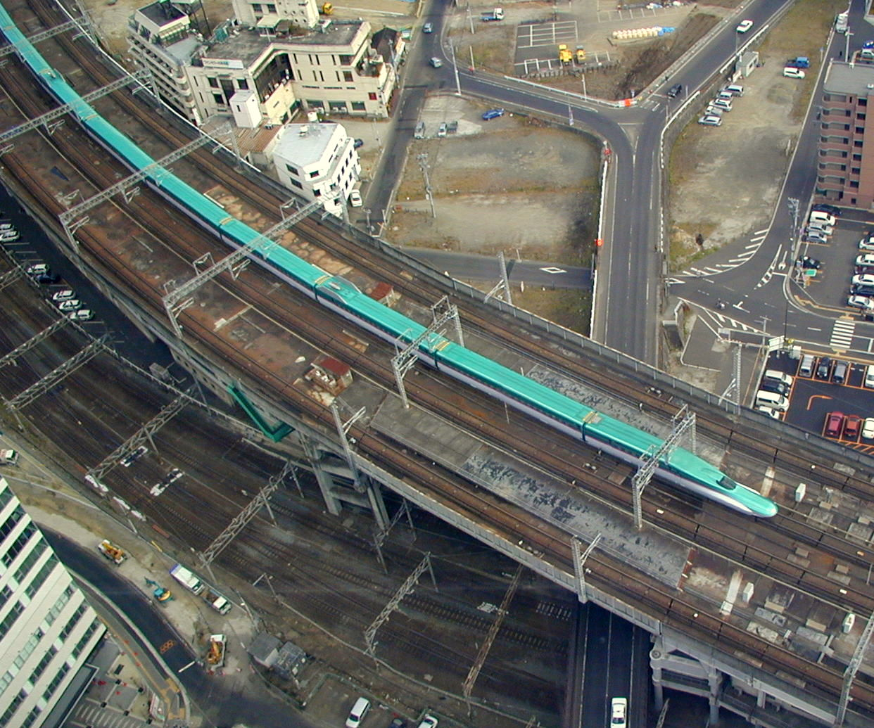 An E5 series Shinkansen train approaching Sendai Station passes the Miyagino Bridge (X Bridge). Viewed from the Aer observation terrace.